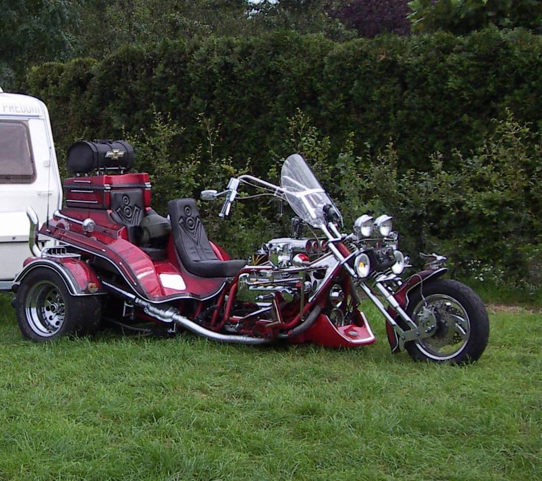 Dutchtrikers teammember Rick's ITM Monster V8 trike